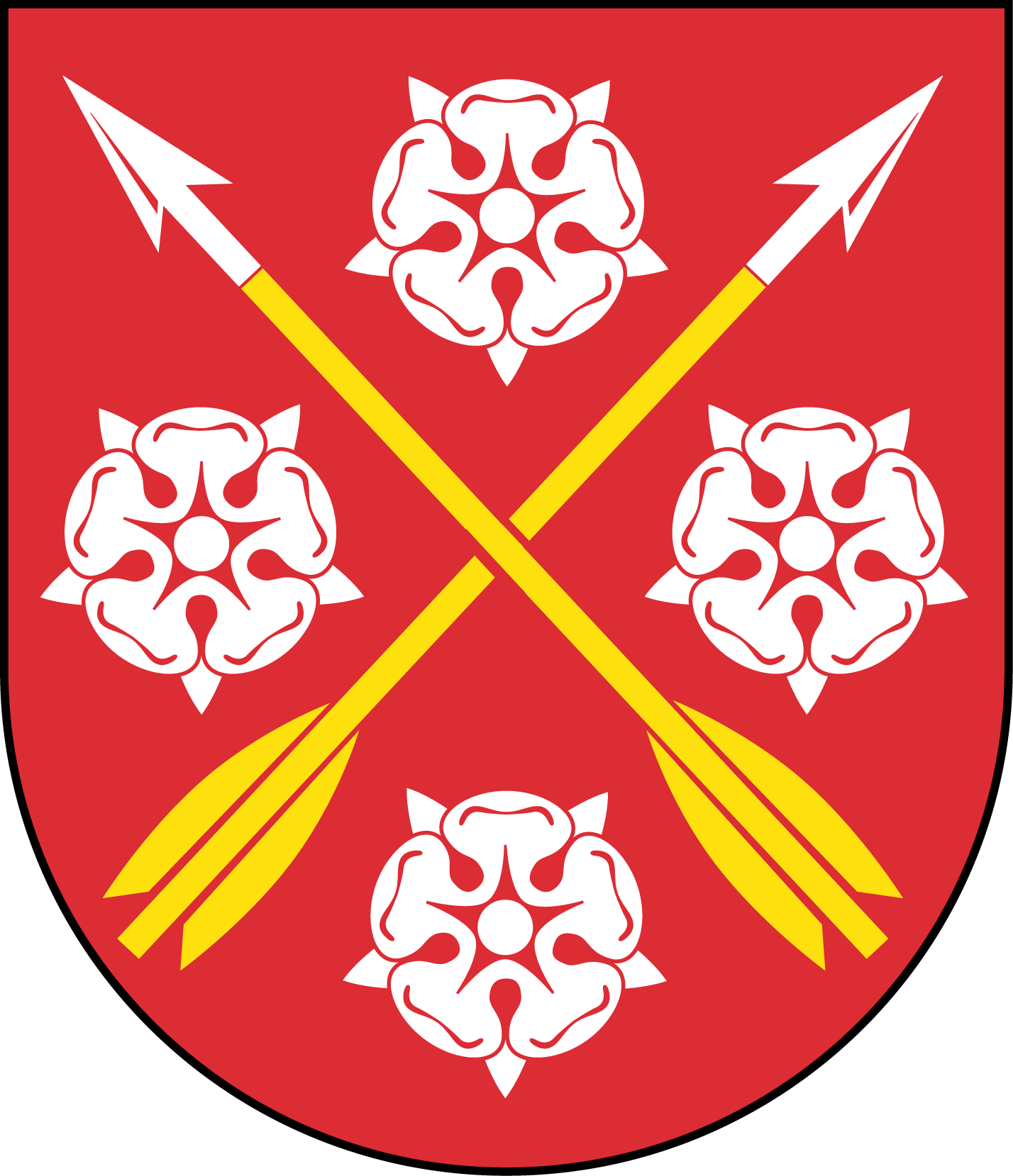 Coat of arms of the province of Närke, Sweden. Painted by Vladimir A. Sagerlund when he was the heraldic artist at the National Archives of Sweden (Riksarkivet). This representation of a coat of arms is potentially different from the one used by the armiger (municipality or organisation) in question. = ⇑“Sable, a lionrampant or” This coat of arms was drawn based on its blazon which – being a written description – is free from copyright. Any illustration conforming with the blazon of the arms is considered to be heraldically correct. Thus several different artistic interpretations of the same coat of arms can exist. The design officially used by the armiger is likely protected by copyright, in which case it cannot be used here.Individual representations of a coat of arms, drawn from a blazon, may have a copyright belonging to the artist, but are not necessarily derivative works. Further information: Commons:Coats of arms and Template:Coa blazon